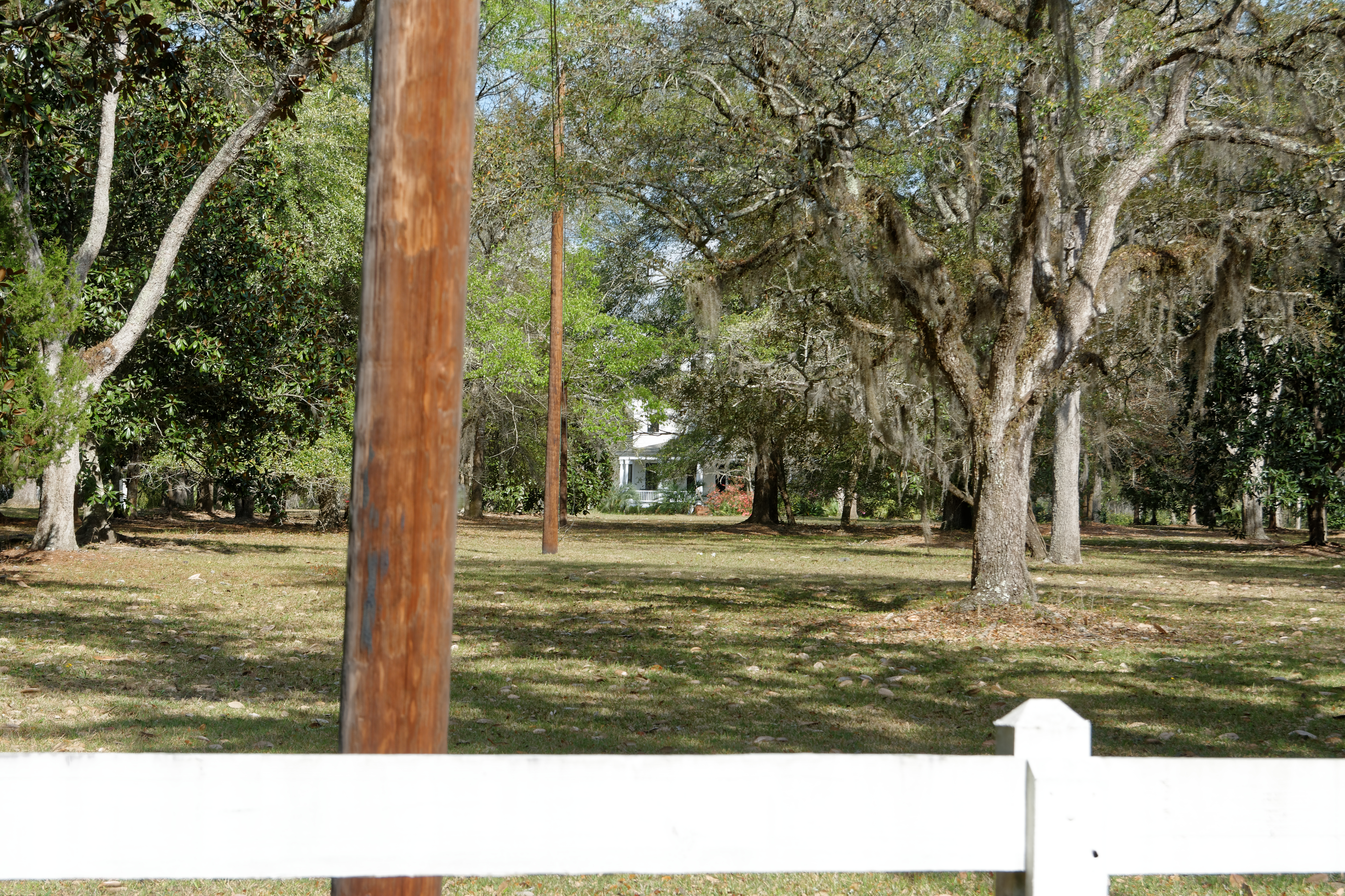 Henry Gtay Turner House and Grounds, Quitman, Georgia, U.S.